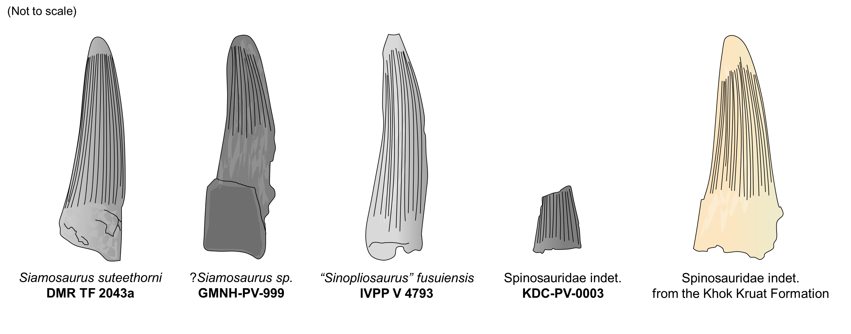 Comparison between five spinosaurid teeth that have been found in various parts of Asia including Thailand, Japan, and China. Based on: [1], [2], and [3]